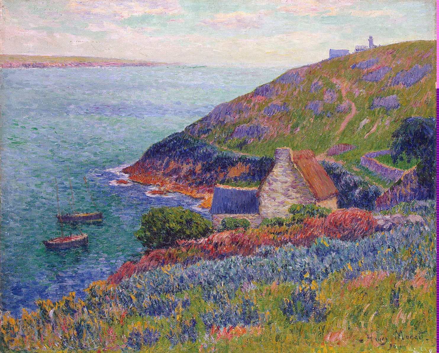 Port Manech